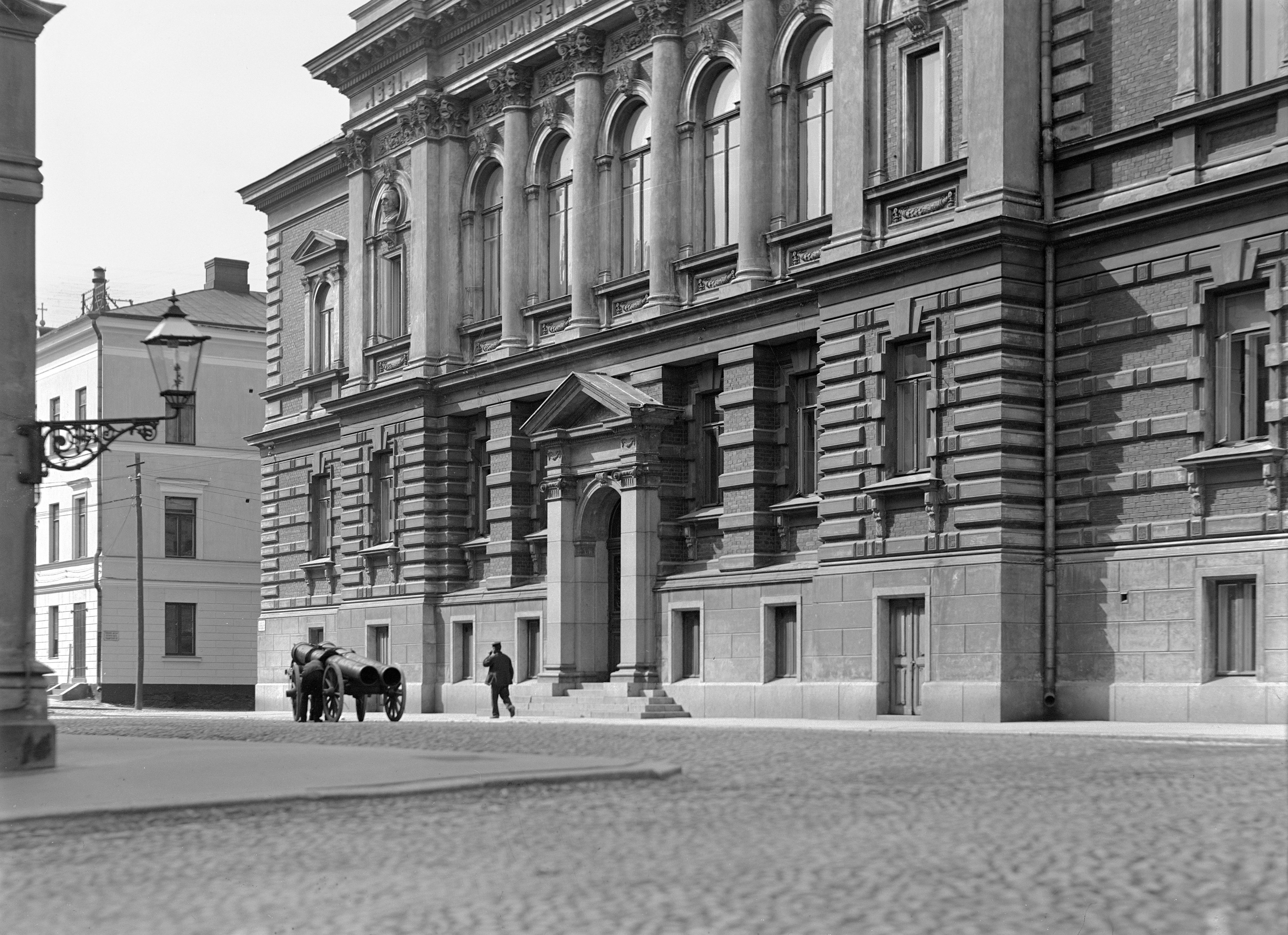 Finnish Literature Society's Building on Hallituskatu in Helsinki, Finland.